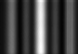 Interferometric pattern corresponding to N = 3 with diffraction signal superimposed on right wing maxima